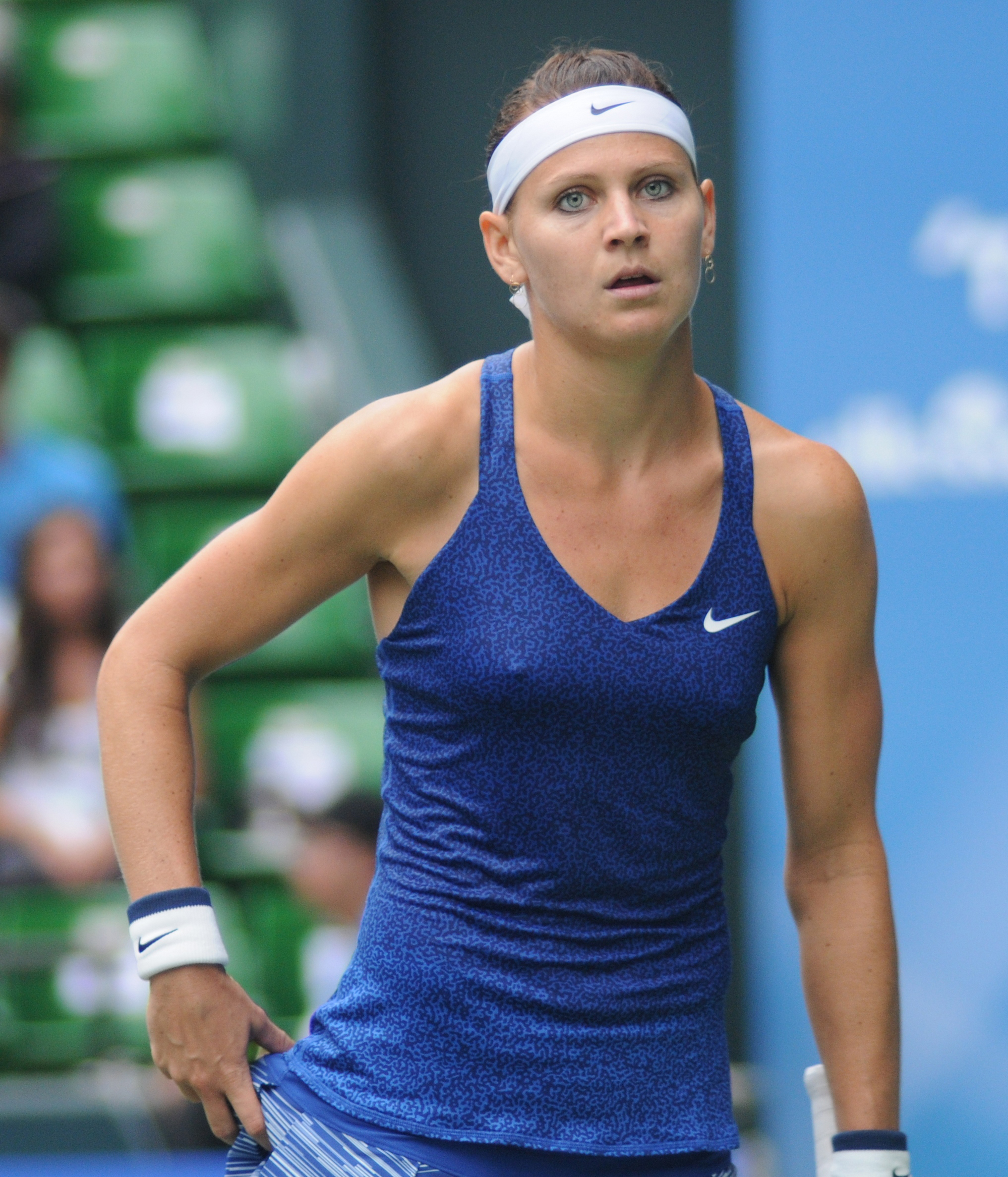 Lucie Šafářová at the 2014 Toray Pan Pacific Open